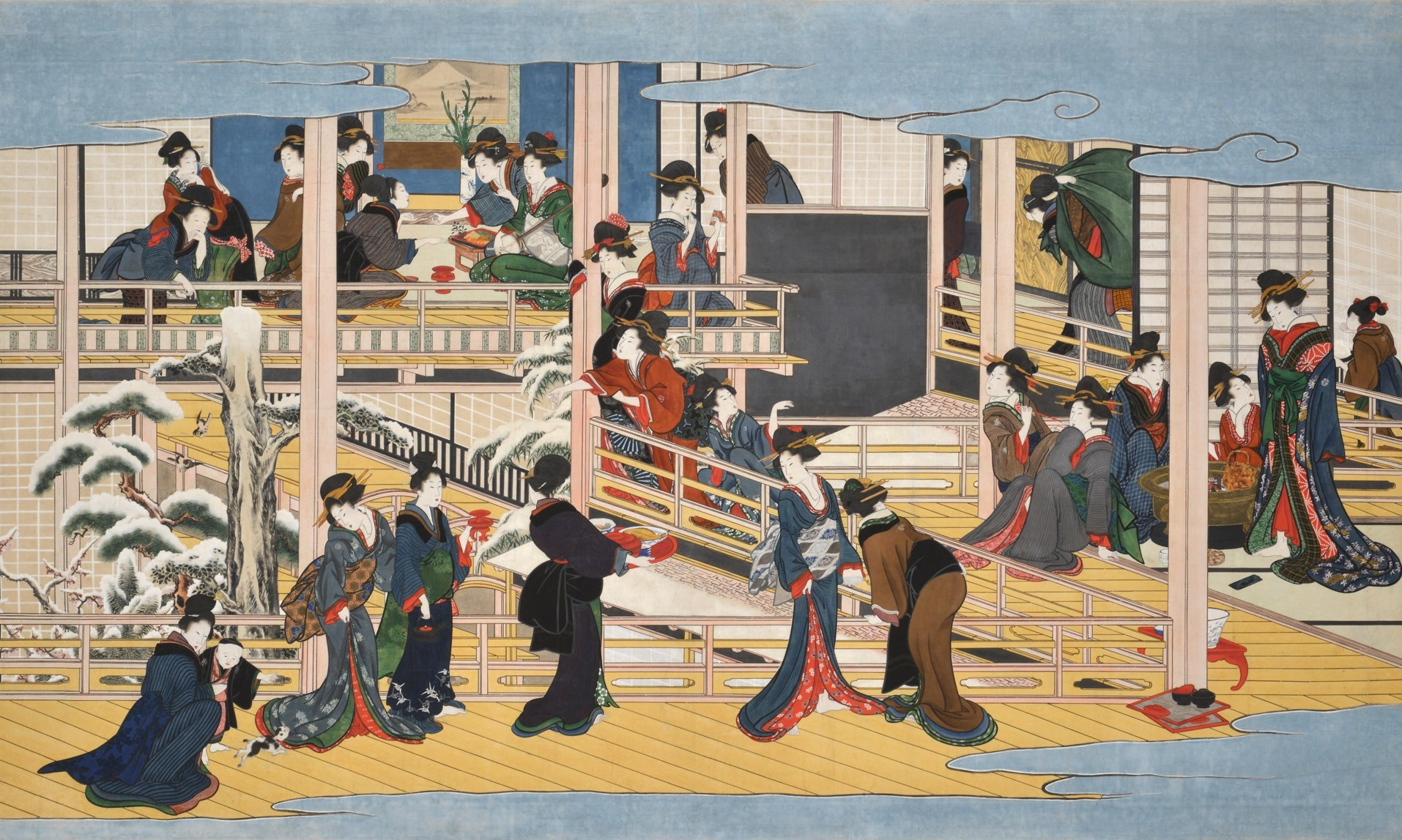 Ukiyo-e painting of snow in Fukagawa